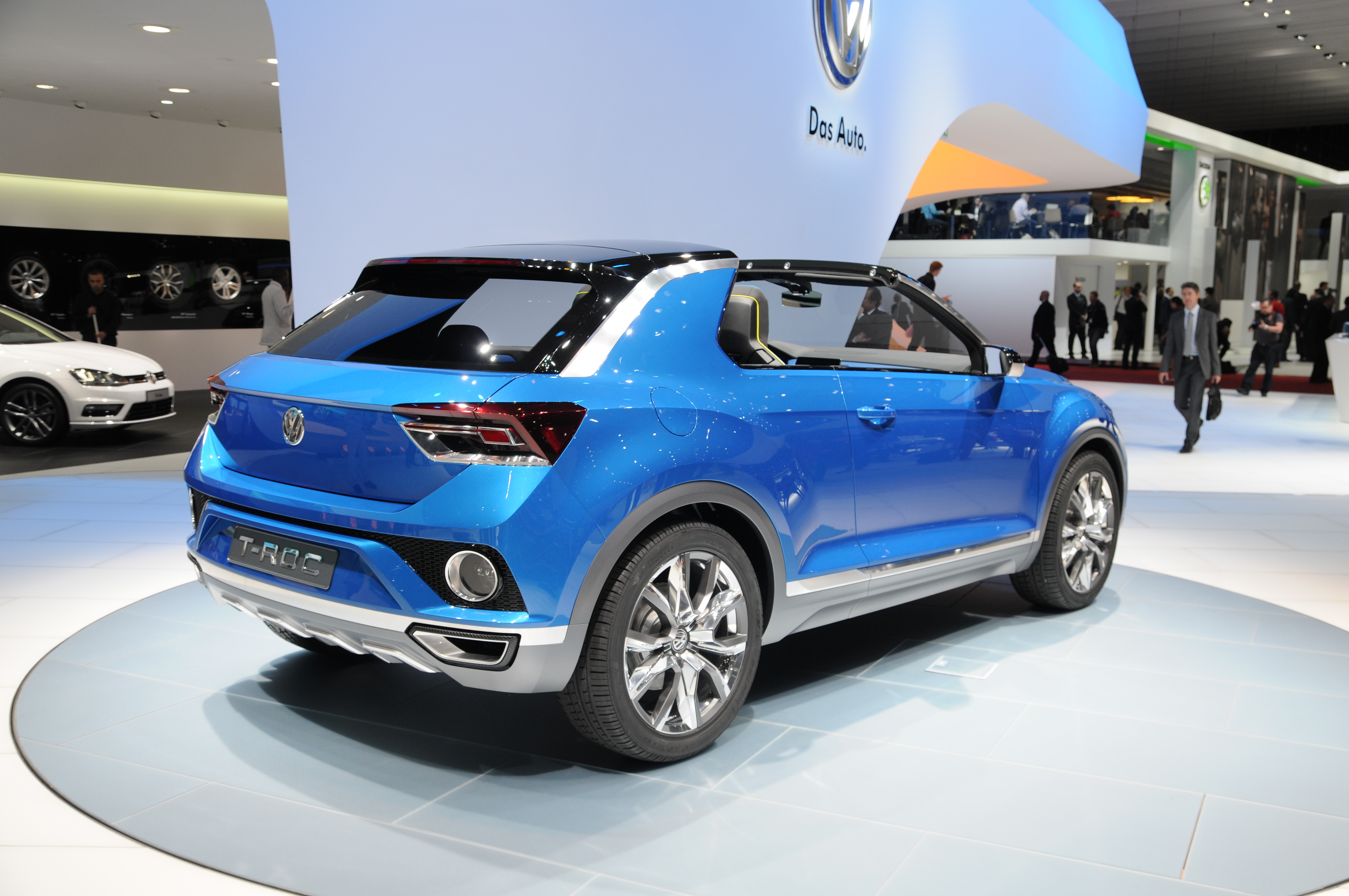 Geneva Motor Show 2014 (photo taken on the first press day)